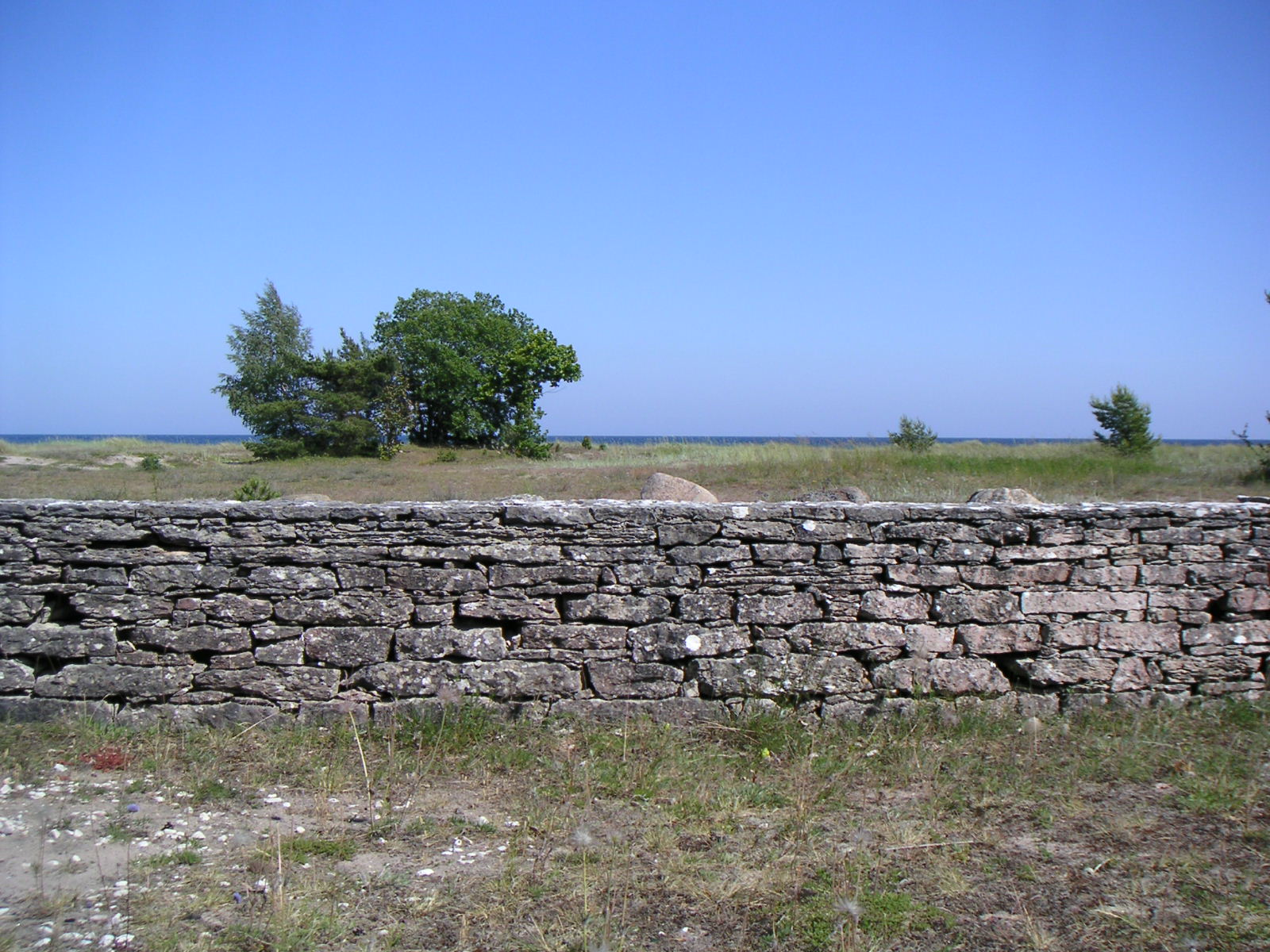 Barnarve, Gotland